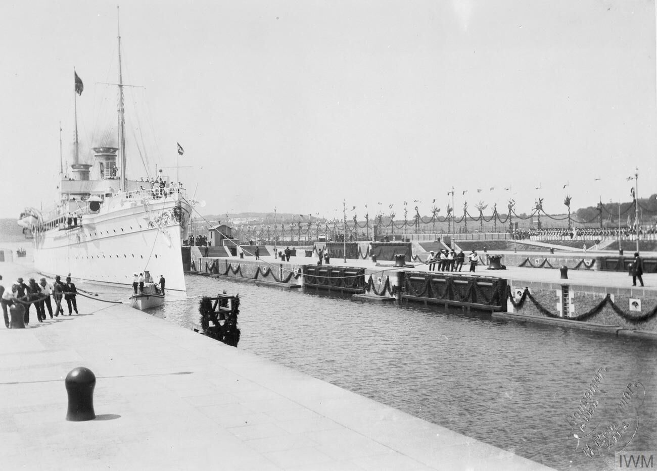 Germany 1890 - 1914 The Kaiser and other members of the German Royal Family pass through the newly opened Kiel Canal on the German royal yacht SMY HOHENZOLLERN on 21 June 1895.